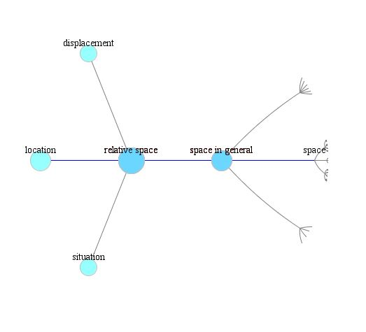 Hyperbolic tree with 'Relative space' in centre